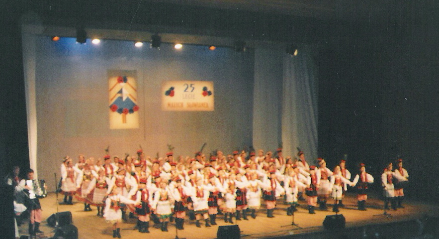 Krakowiak dance